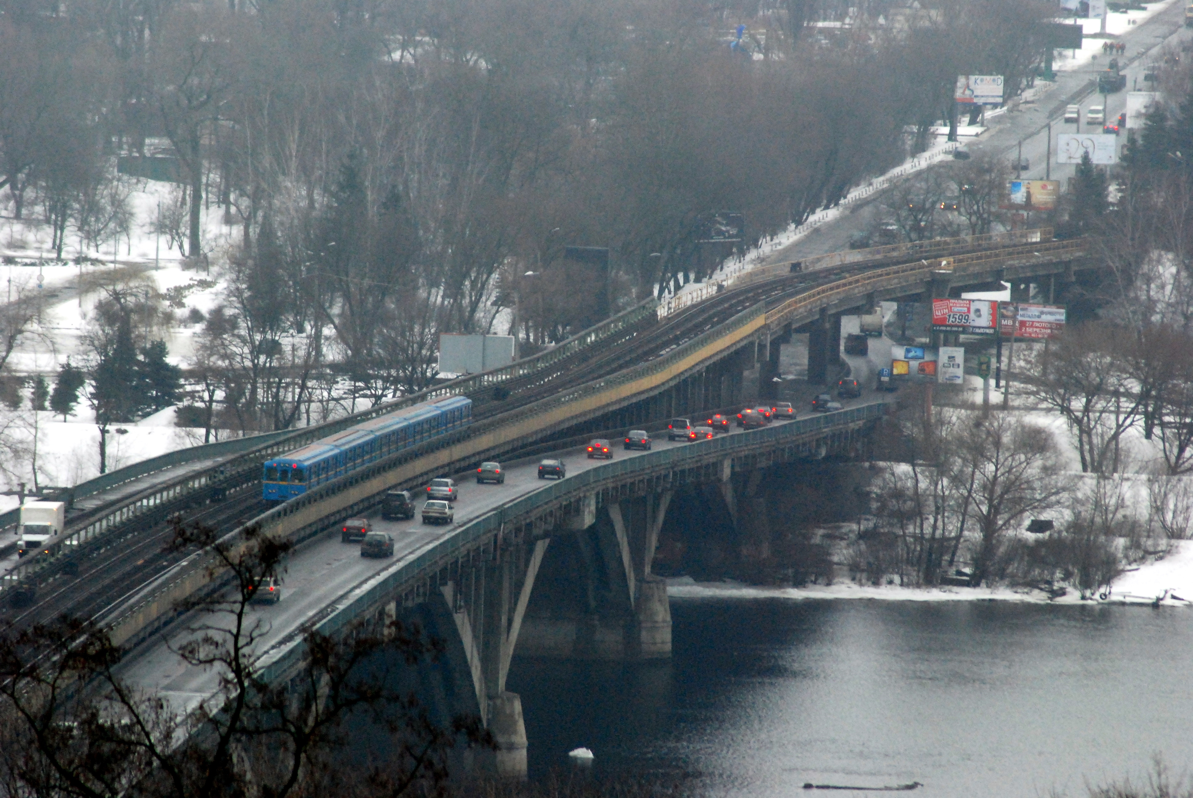 A metro train crossing the Dneper through the Metro Bridge, as seen from the area of the Kiev-Pechersk Lavra